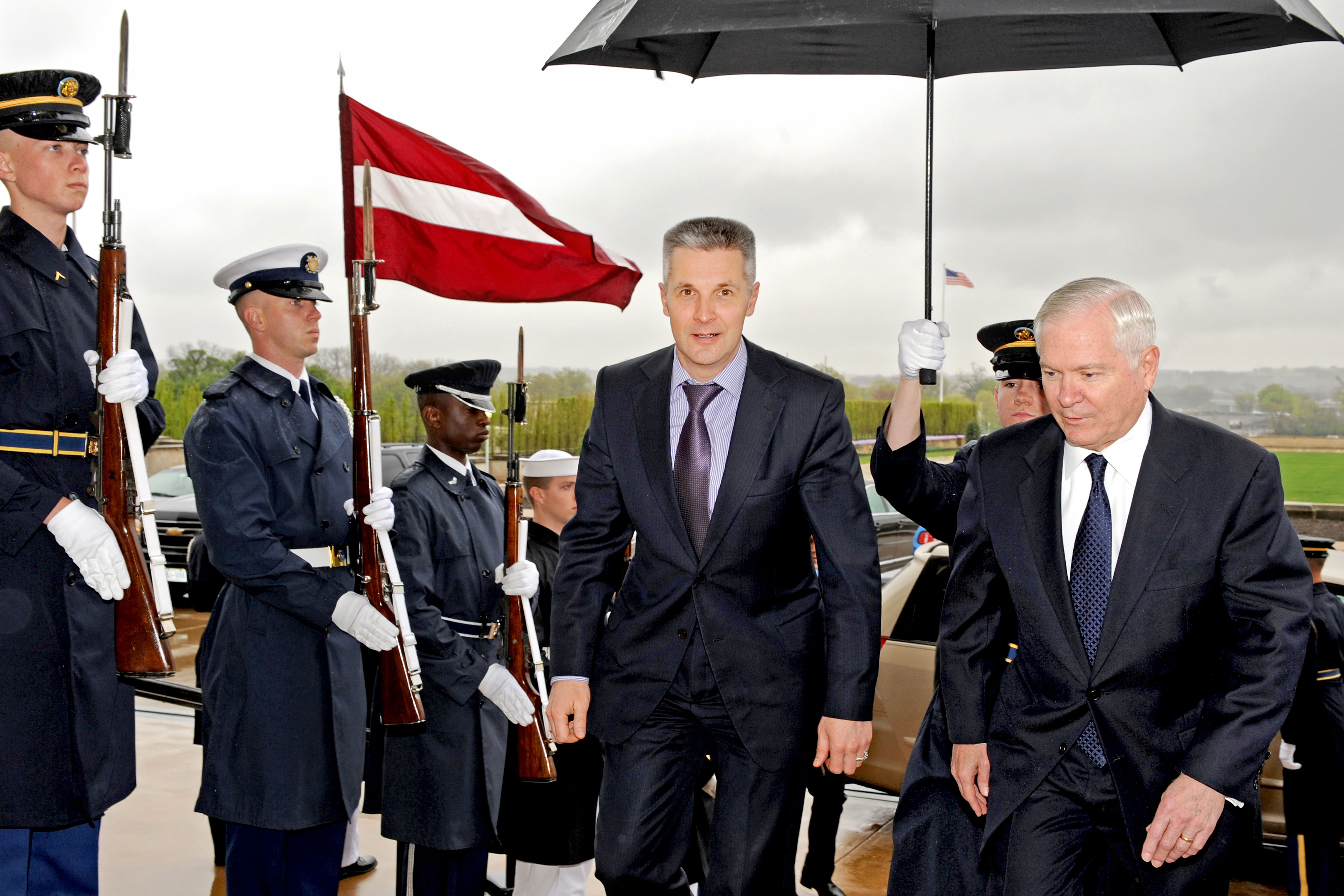 Secretary of Defense Robert M. Gates escorts Latvian Minister of Defense Artis Pabriks (left) through an honor cordon and into the Pentagon for bilateral security discussions on April 13, 2011.